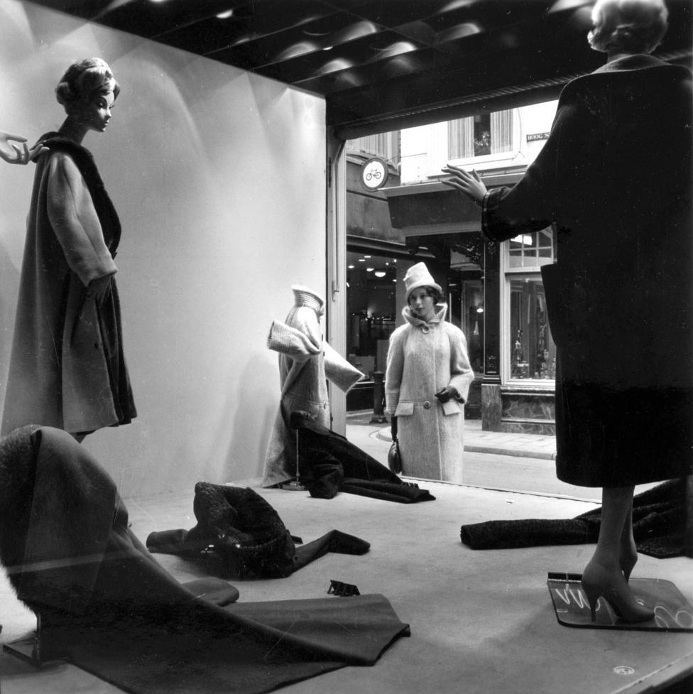 Nationaal Archief/Spaarnestad Photo/Cevirum/G.A. van der Chijs